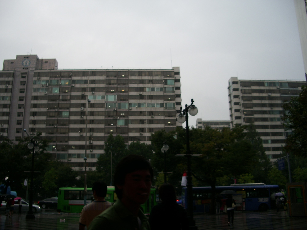 Jamsil (蠶室, "Silk Room") used to be a floodplain where silkworms were raised. In the 1960s, to cope with Seoul's population growth, the floodplain was filled, and the government developer, Korea Housing Authority, started building apartments there. Unlike Phases 1-4 which were coal-fired 5-story buildings with no elevator (and lucky to have indoor plumbing), Phase 5, built in the mid-1970s and standing 15 stories tall, was state-of-the-art for its time, with elevators, heating via hot water piped in from a central boiler plant, and for those few lucky enough to own a private car, ample parking (woefully inadequate today, of course). Jamsil really boomed, as it was annexed into Seoul in 1973, subway service and Olympic facilities were added in 1980, and Lotte World opened in 1989 right after the Olympic Games. Today, Phase 5 looks very dated - Phase 1-4 were so obsolete they were demolished and replaced with state-of-the-art 30-story luxury highrises (free right to move in for displaced former residents per Korean law).